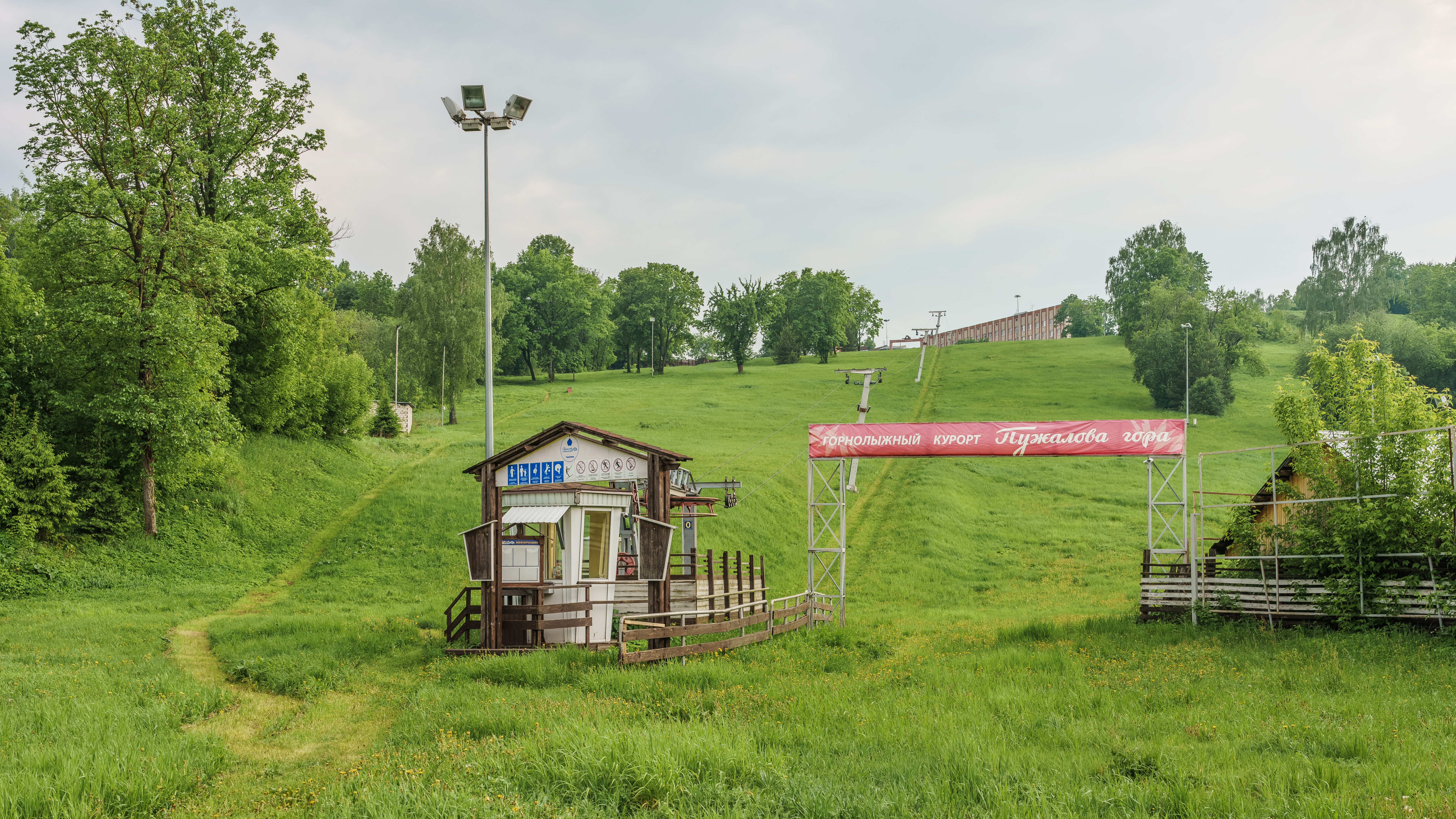 Ski resort with chairlift in Gorokhovets, Vladimir Oblast, Russia